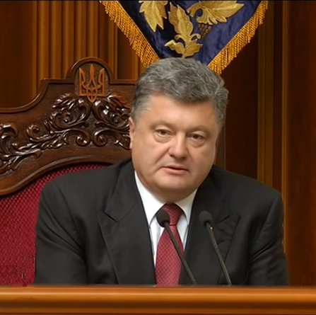 President of Ukraine Petro Poroshenko in parliament, July 31, 2014.